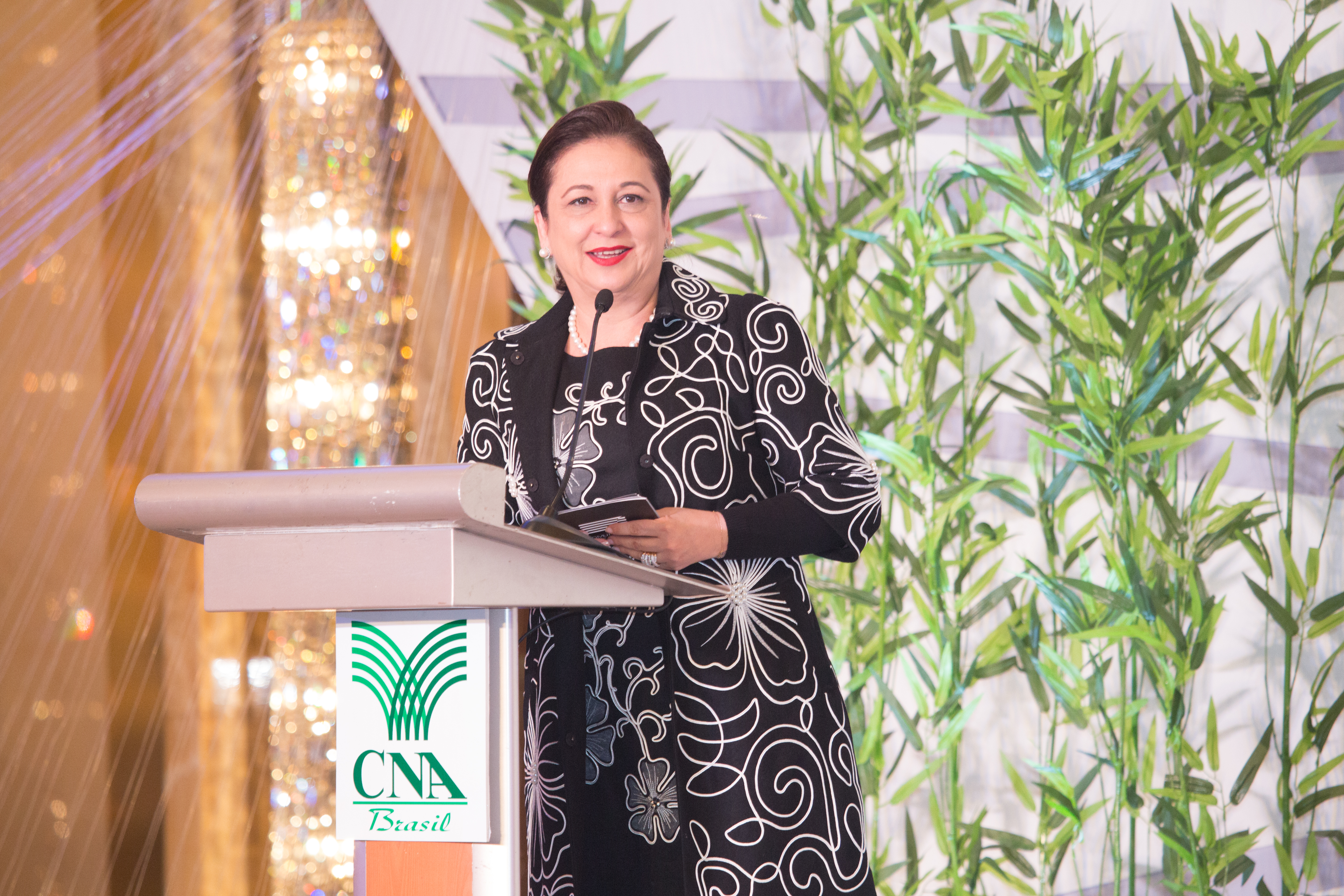 Kátia Abreu durante jantar com empresários brasileiros e chineses do setor agropecuário, em 2013.